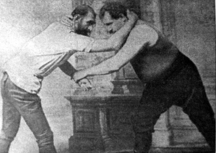 nestor esebua do kula gldaneli